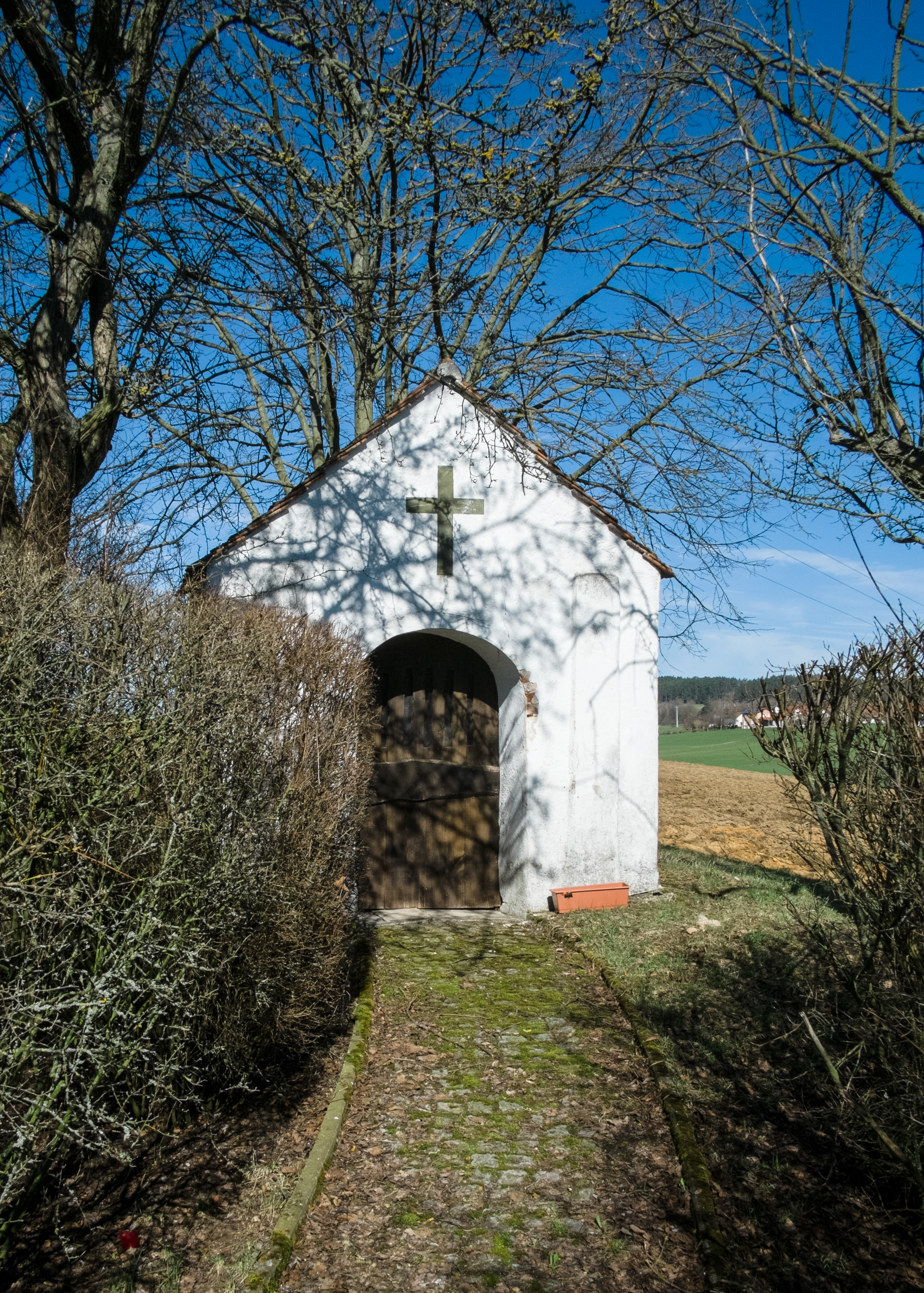 Chapel St. Mary, Hirschau-Ebenhof, Bavaria, Germany